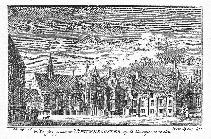 Old drawing of the Monastery of Graefenthal in the district of Cleves.